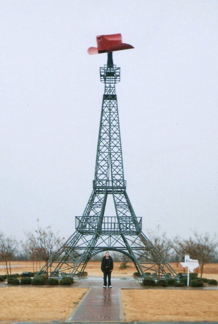 Paris Texas Eiffel Tower